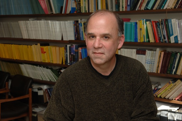 Ralph Cohen in his office at Stanford